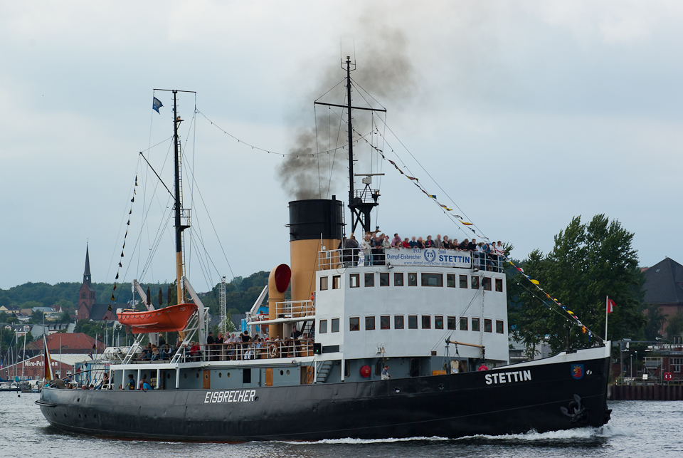 Steamship Stettin on the Dampfrundum 2009 in Flensburg